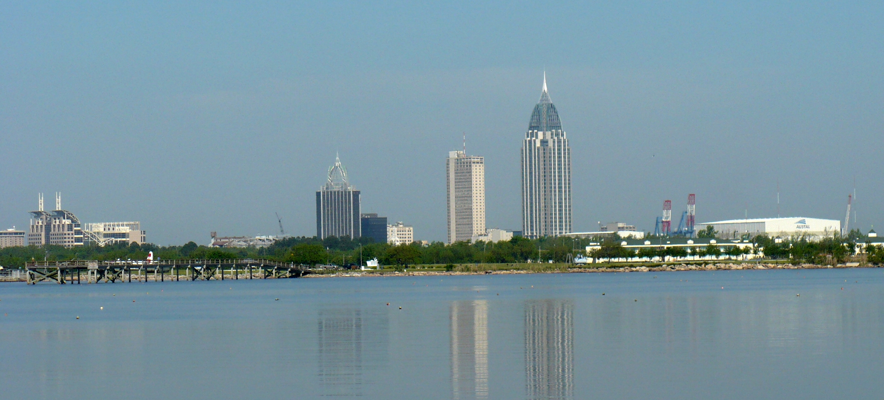 The skyline of downtown Mobile, Alabama as viewed from the Battleship Parkway.